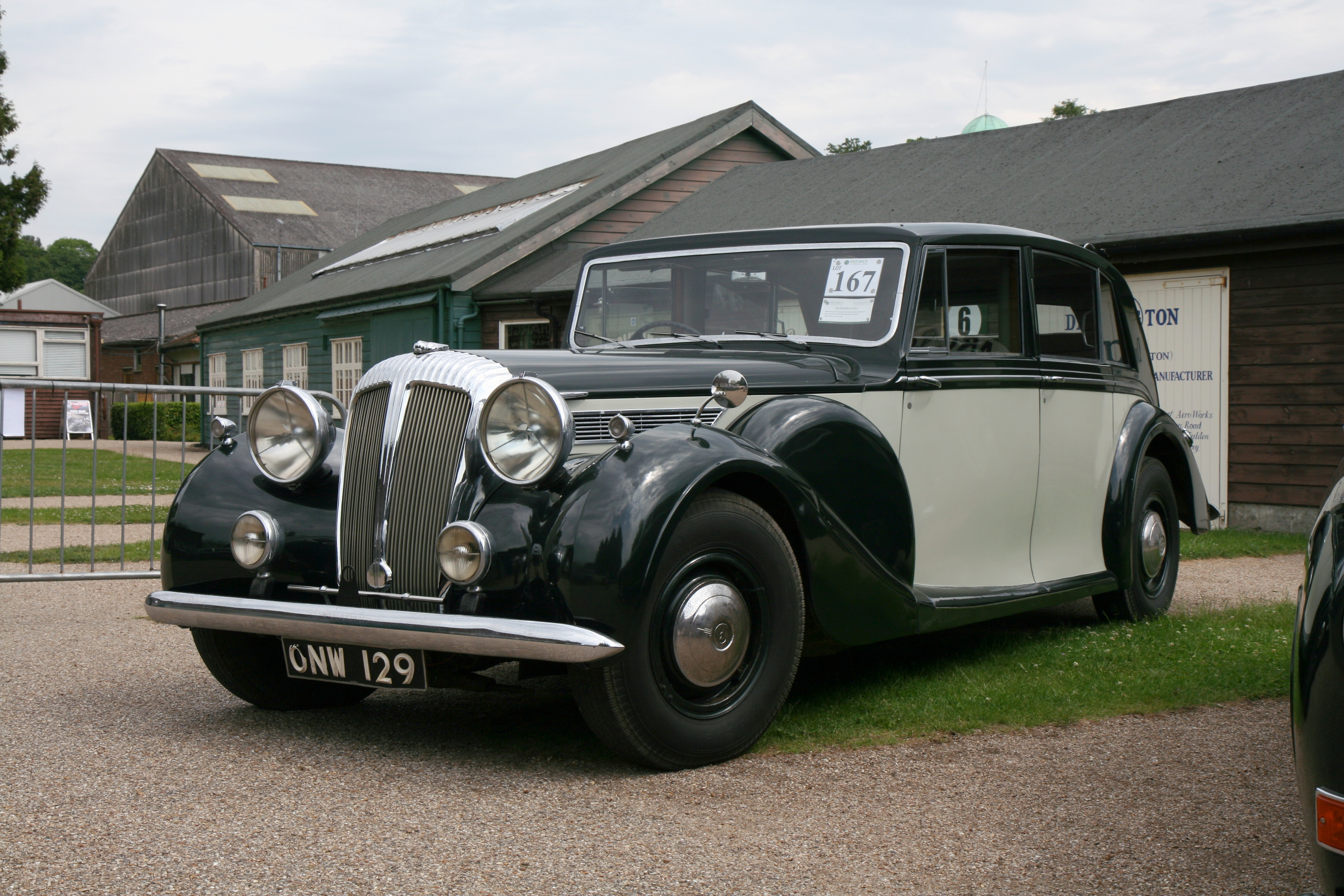 1950 Straight-Eight touring limousine originally supplied to the Bishop of Leeds then black and navy blue One of just six built this imposing and well built example razor-edged. close-coupled touring limousine coachwork by specialist. Freestone & Webb. ONW129 was purchased new by the Bishop of Leeds who. in turn. sold it to a wedding hire company in Wales. It was then sold on privately through a small ad in the Times in the mid to late 1960s to Mr. Rupert Spink. It was used by them right up until 1977 when it then passed to noted Daimler Historian. Brian Smith where it featured in his acclaimed two-volume tome 'Daimler Days'. Indeed it has also been described in another Dalton Watson publication as "the last of the great straight 8's" and "fairly undervalued". The car was complete but drab in its original black and navy blue faded paint and improvised interior trim. Rexine replacing leather and cloth. He then began a restoration exercise. mechanically it required little although later it suffered from a stuck valve and the head was sent it away for a professional overhaul. Part of the exhaust system was also replaced and new gaskets fitted to head and manifolds. The paintwork was rubbed down and made ready for its new colour scheme and the car then went to professional trimmers who completely renewed the interior. The interior woodwork was re-polished and re-chroming took place where necessary.